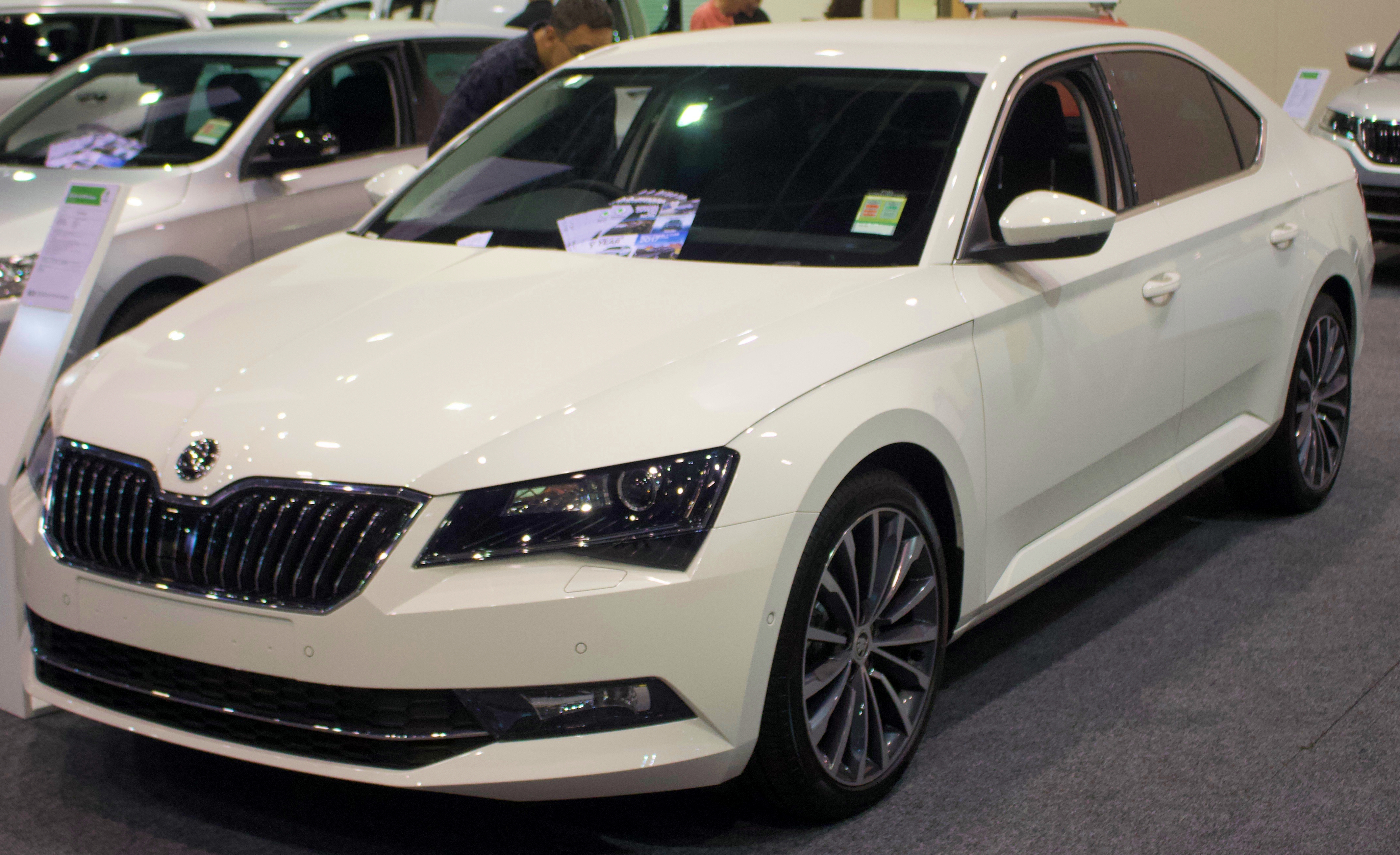 2018 Skoda Superb (NP) 162TSI sedan. Photographed at the 2018 Motor Pavilion at Perth Convention and Exhibition Centre, Perth, Western Australia, Australia.